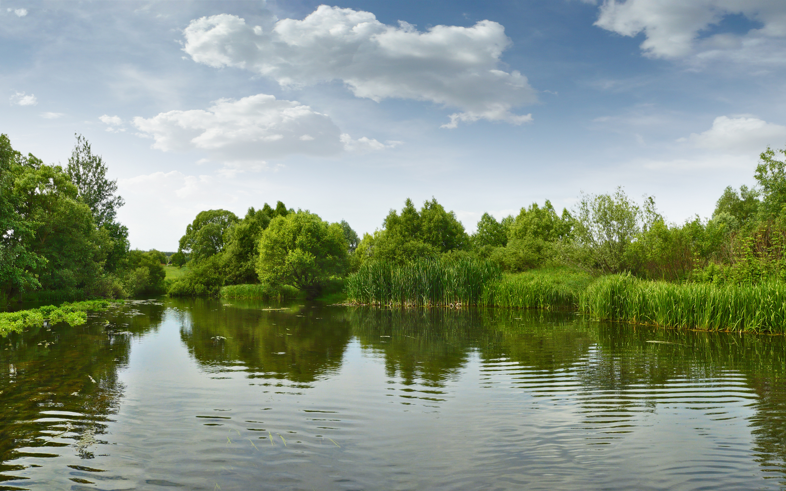 The Koren River near the selo of Churaevo in Shebekinsky District.